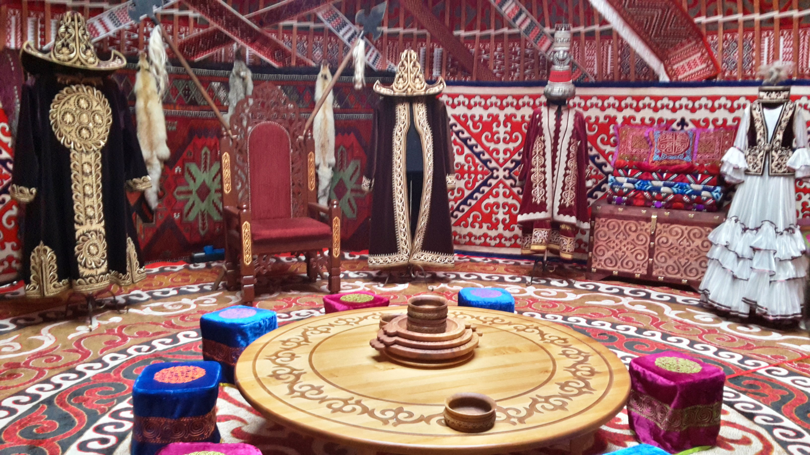 Inside a Kazakh traditionnal yurt from Kazakhstan, at Paris (France), in november 2014. That was an event about Kazakh culture made by Kazakhstan government ((See also File:Kazhakhstan_a_Paris.Turan_ensemble.jpg, File:Kazhakhstan_a_Paris.Turan_ensemble.2.jpg at the same event). We can see traditionnal specific kazakh drawings and colors on felt and several traditionnal clothes around the yourte. At both sides of the throne at the back of the yurt, two gray wolves skins, symbol of tengrism.